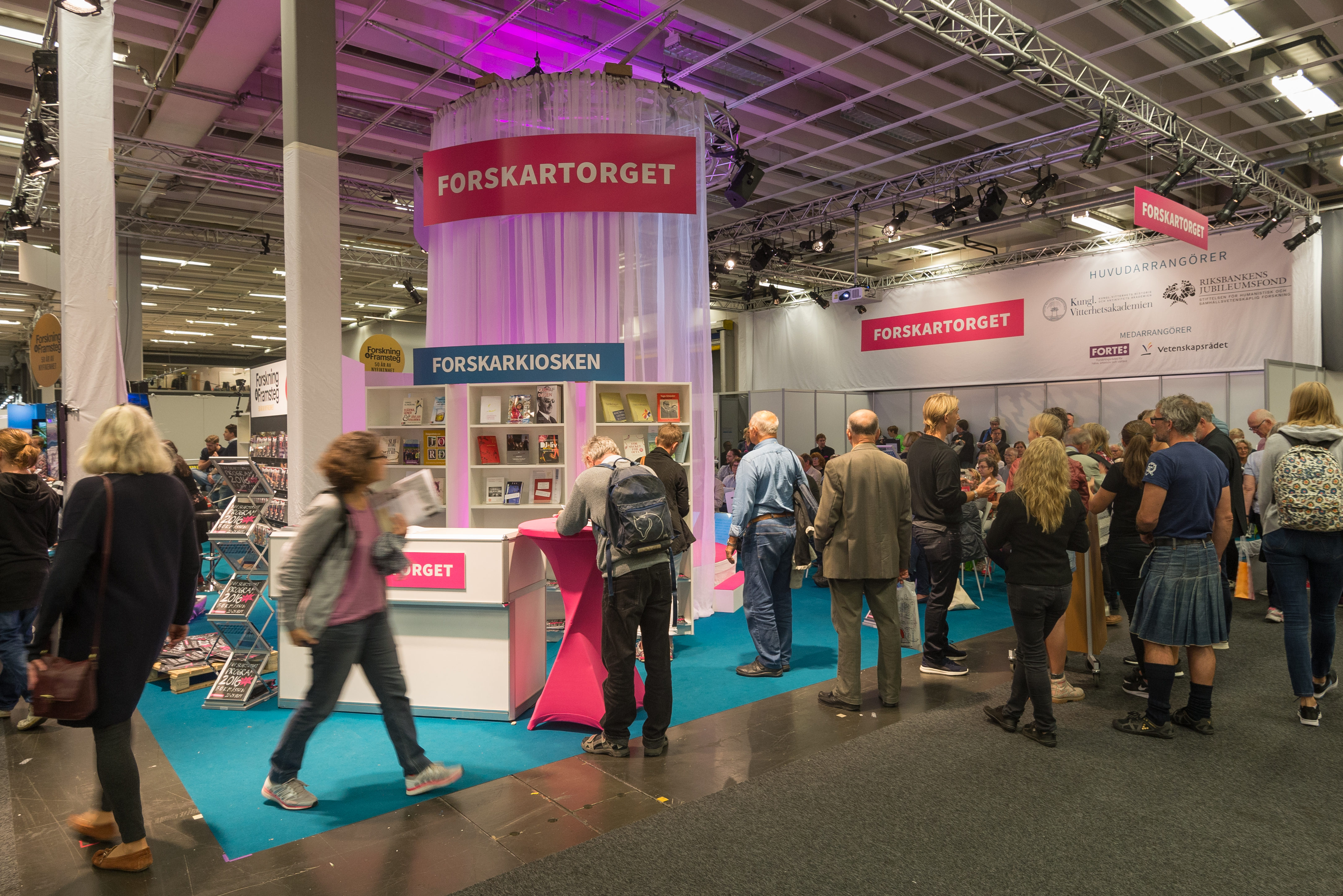 Göteborg Book Fair 2016.